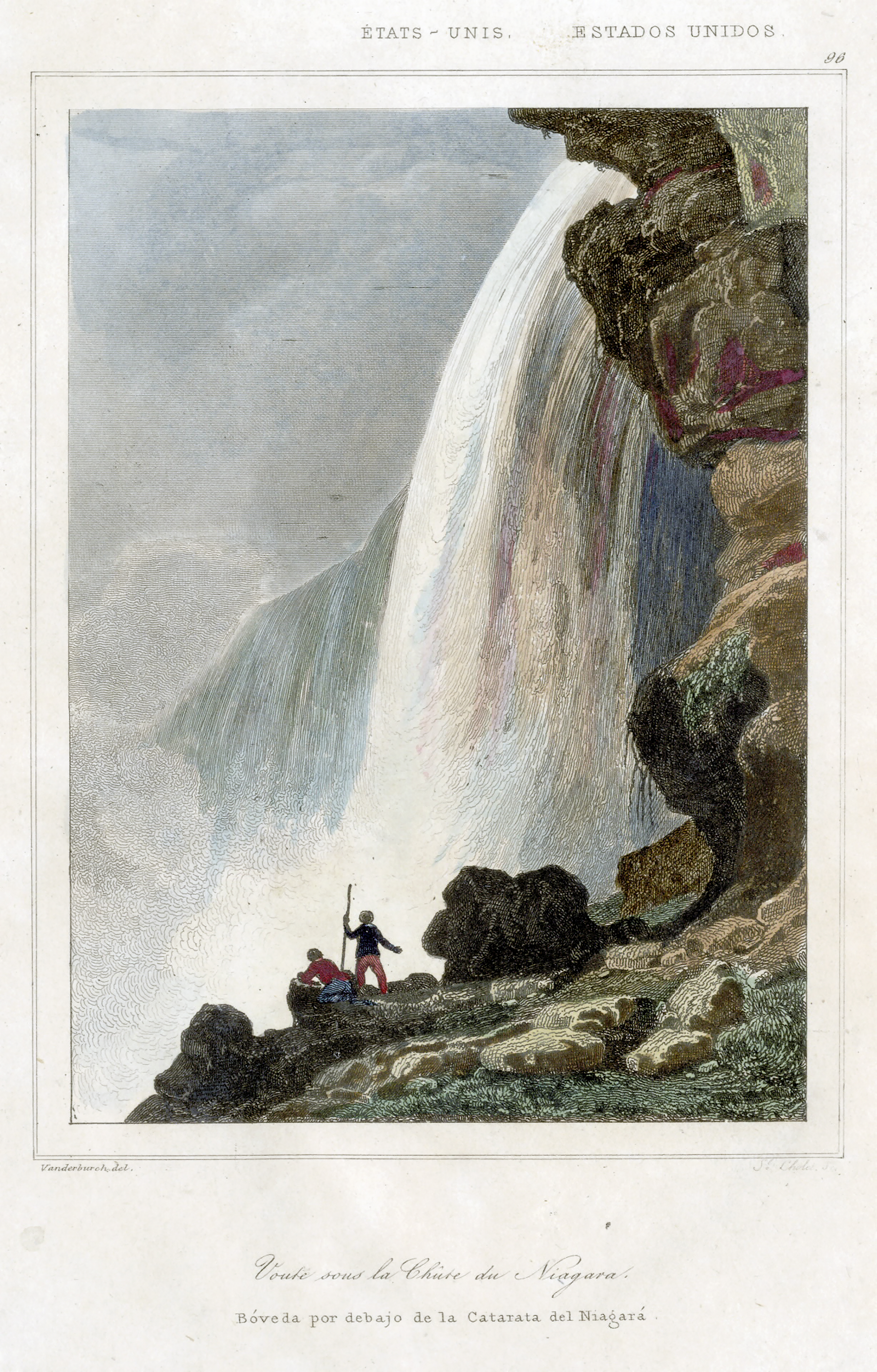 Notes Inscribed in the plate, t.: ETATS-UNIS. ESTADOS UNIDOS.; u.r.: 96; l.l.: Vanderburch. del.; l.r.: sI Cholet. Sc.; b.: Voute sous la Chute du Niagara. I B6veda por debajo. de la Catarata del Niagara. Published (before Spanish lettering added) in Jean-Baptiste-Gaspard Roux de Rochelle, Etats Unis d'Amerique (L'Univers. Histoire et description de tous les peuples), Paris, 1837, p1. 96. This impression perhaps from 1841 Barcelona edition (Historio de los Estados-Unidos de America). Cf. BN Estampes Apres 1800 7: Illustr. Avec divers dans l'Univers Pitt., chez Lemaitre, 1836-1863. See also I. from VAN DER BURCH, JACQUES-HIPPOLYTE Publisher LEMAITRE (firm), Paris Rights and Licenses Public Domain Medium Steel engraving and watercolour on wove paper. Extent 137 x 102; sheet (trimmed within plate-mark) 215 x 140 mm. Contributor CHOLET, SAMUEL-JEAN-JOSEPH (French, 1786-1874) after